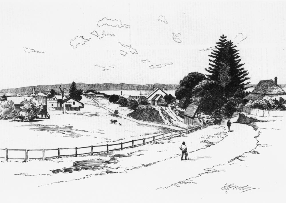 Sketch of Cleveland as viewd from the Brighton Hotel, 1892.